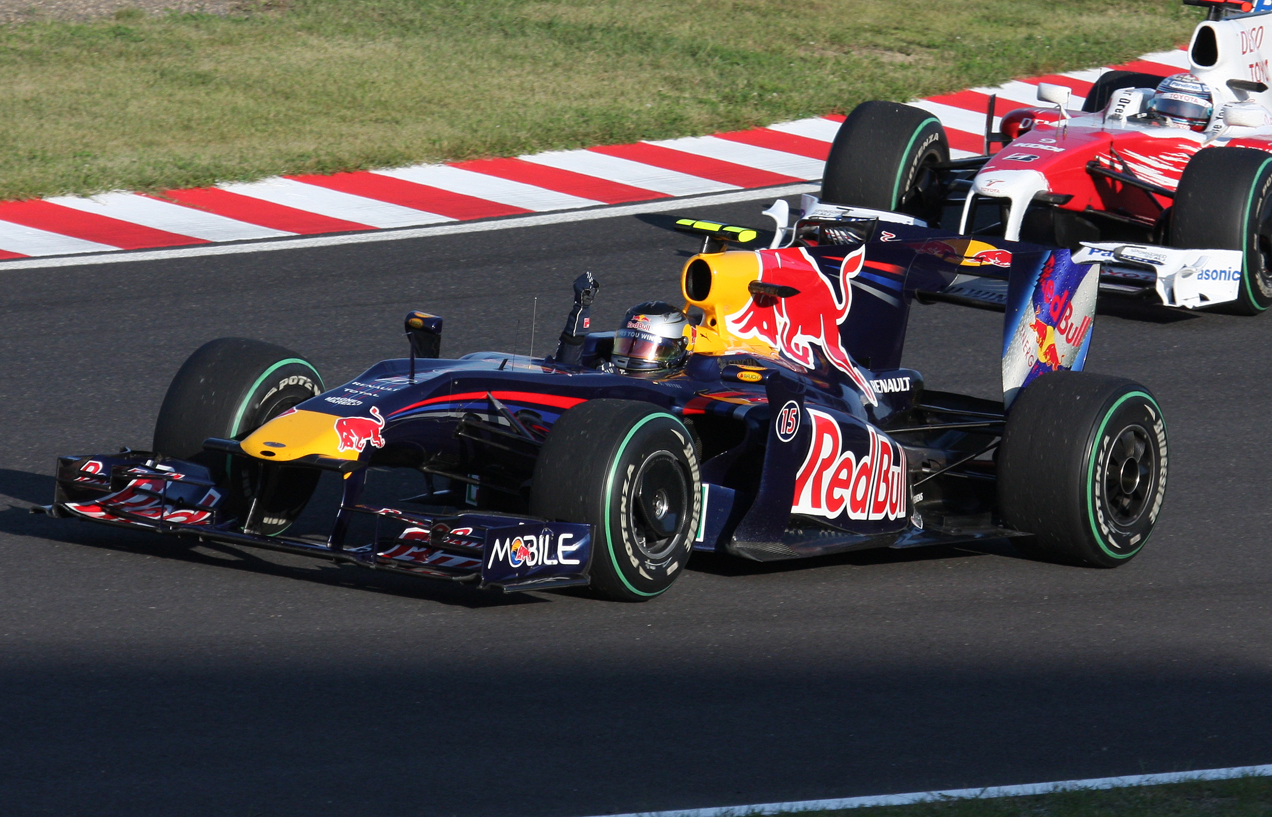 Formula One 2009 Rd.15 Japanese GP: Sebastian Vettel (Red Bull) won the race.